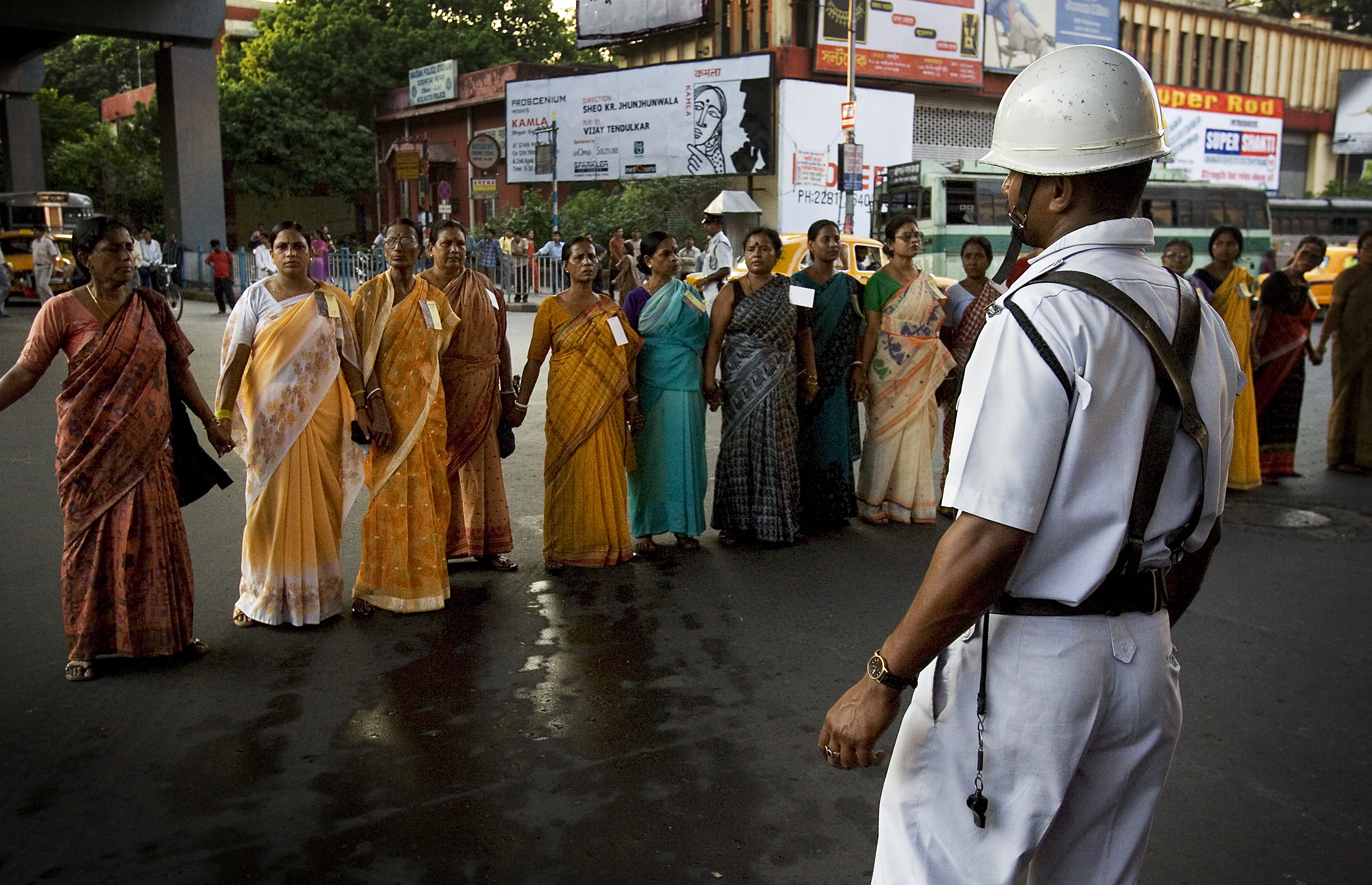 Policeman facing women in a protest march Calcutta Kolkata India